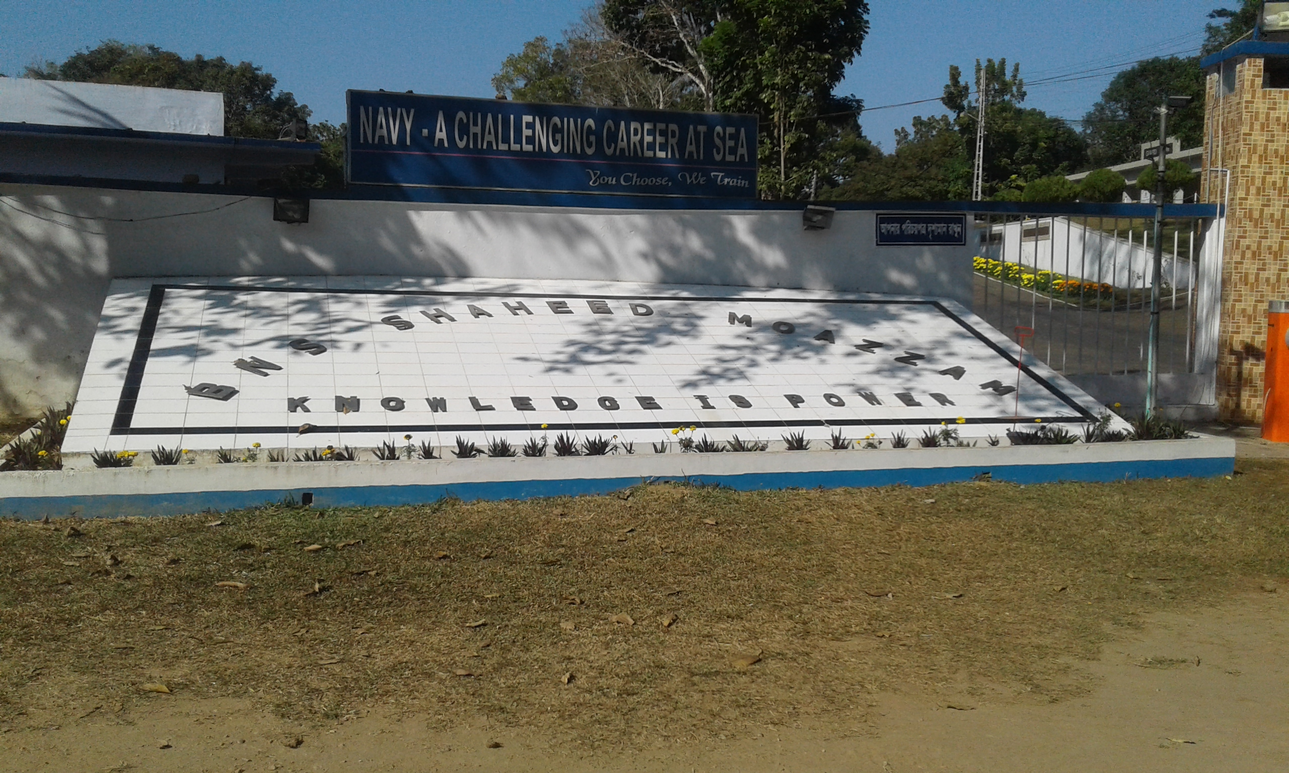 Name Plate of BNS Shaheed Muajjem. It is situated at Kaptai Upazila in Rangamati District of Bangladesh.